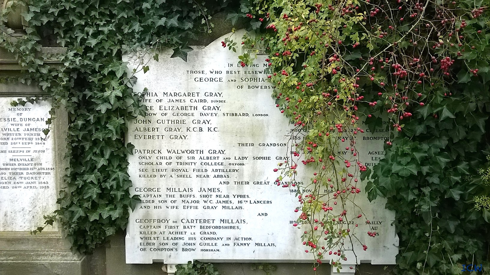 Carteret Millais, Perth, Scotland